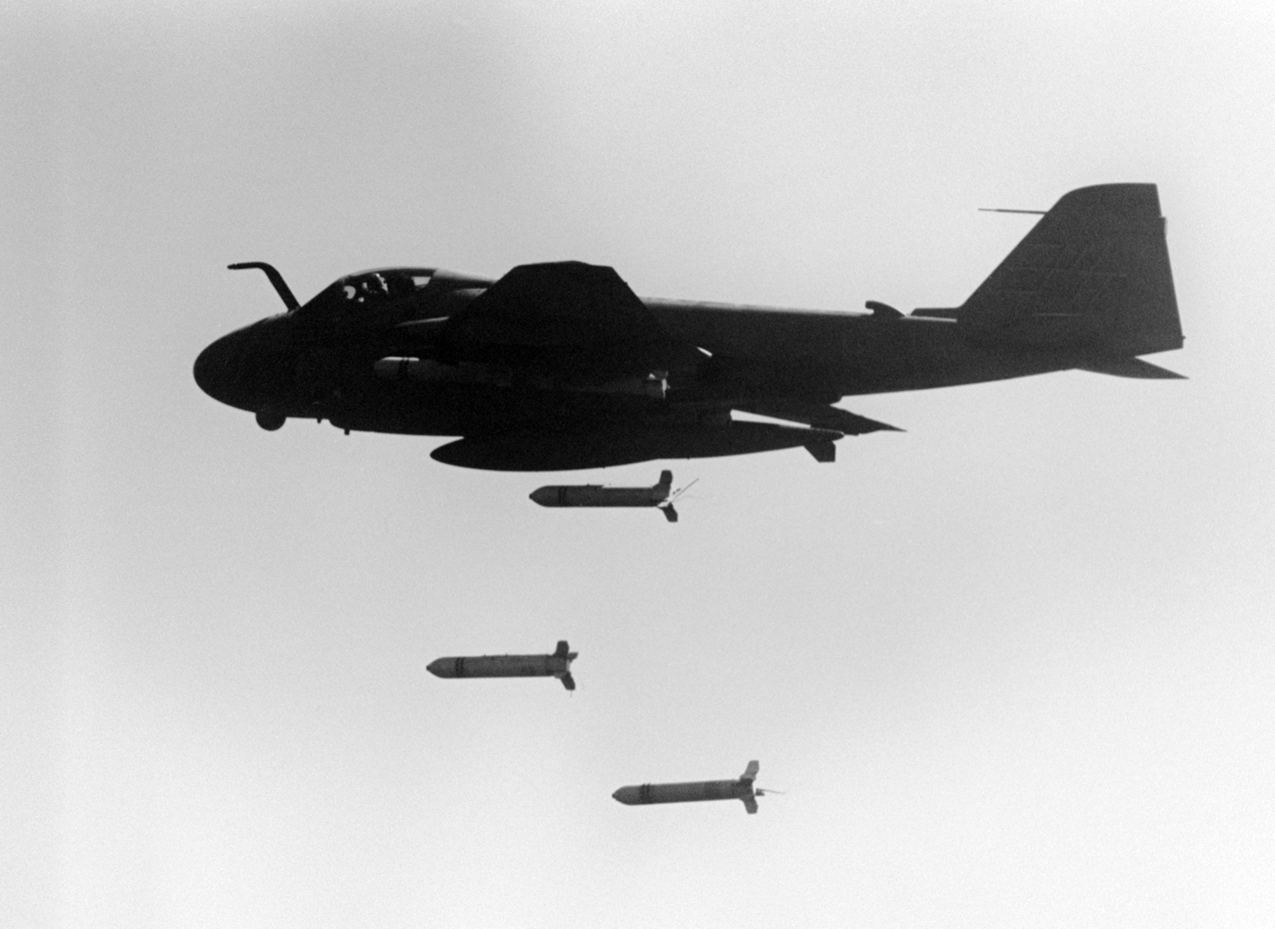 A U.S. Navy Grumman A-6E Intruder from attack squadron VA-95 Green Lizards aircraft dropping CBU-59 cluster bombs over Iranian targets in retaliation for the mining of the guided missile frigate USS Samuel B. Roberts (FFG-58) on 18 April 1988. VA-95 was assigned to Carrier Air Wing 11 (CVW-11) aboard the aircraft carrier USS Enterprise (CVN-65) for a deployment to the Western Pacific and the Indian Ocean from 5 January to 3 July 1988.